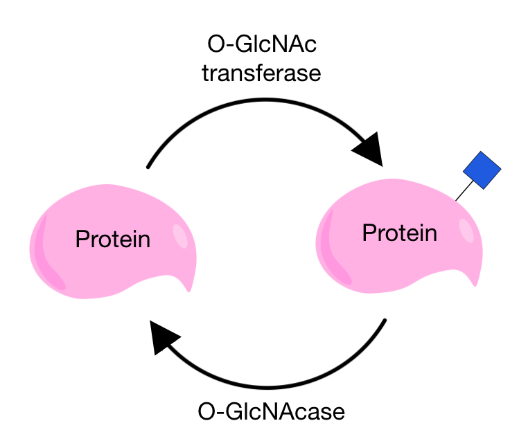 O-GlcNAc transferase (OGT) adds O-GlcNAc onto proteins, O-GlcNAcase (OGA) removes this sugar addition. Addition and removal occurs continuously in a cycle.